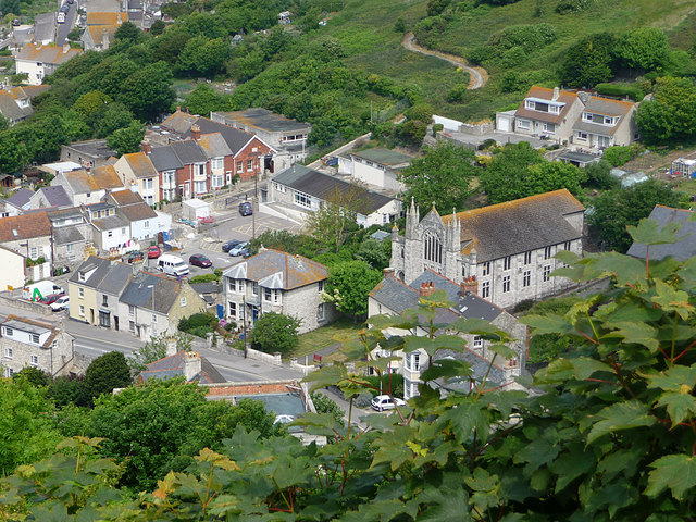 View of Fortuneswell from New Ground